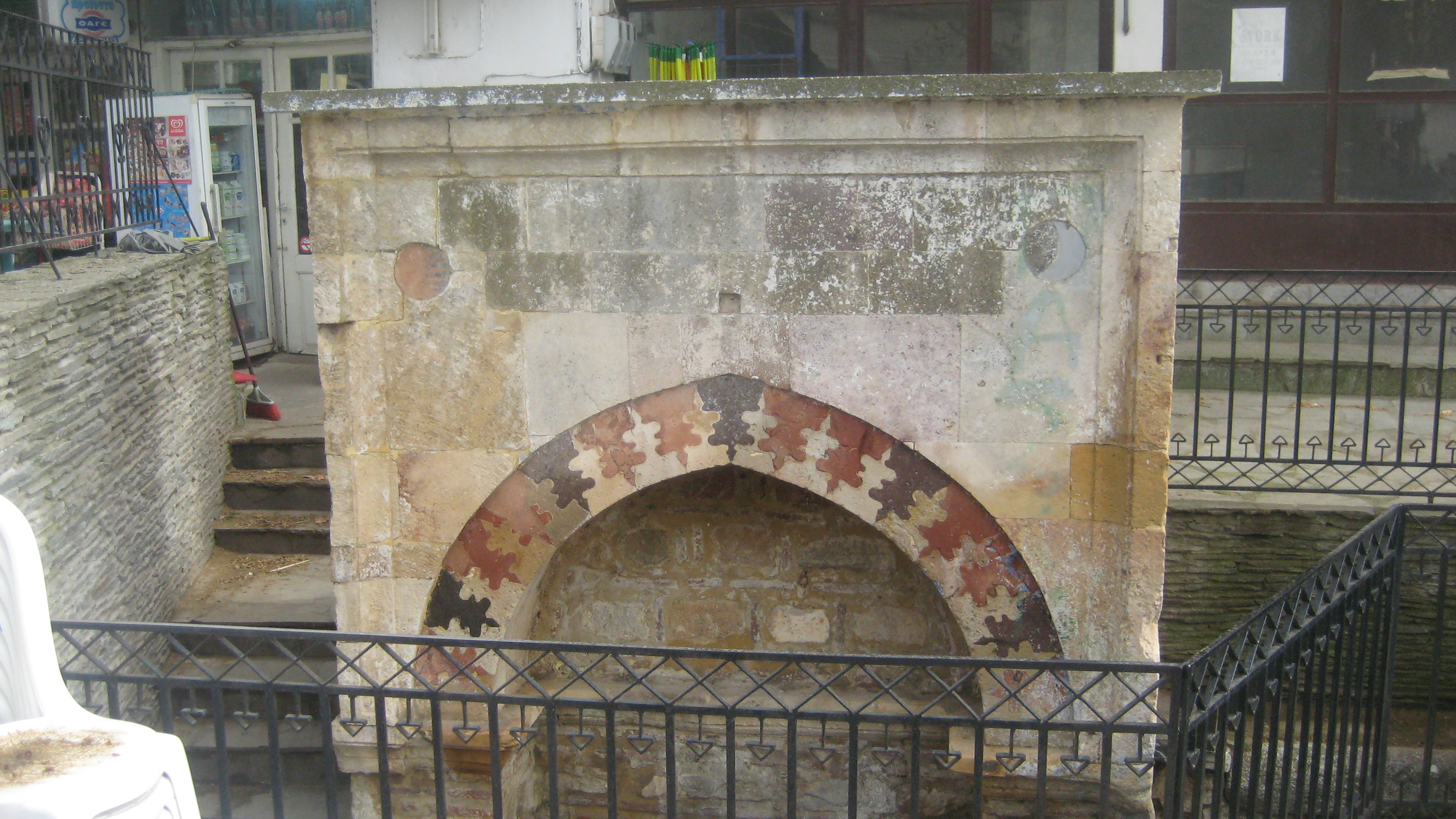 Maronia Petko voyvoda fontain